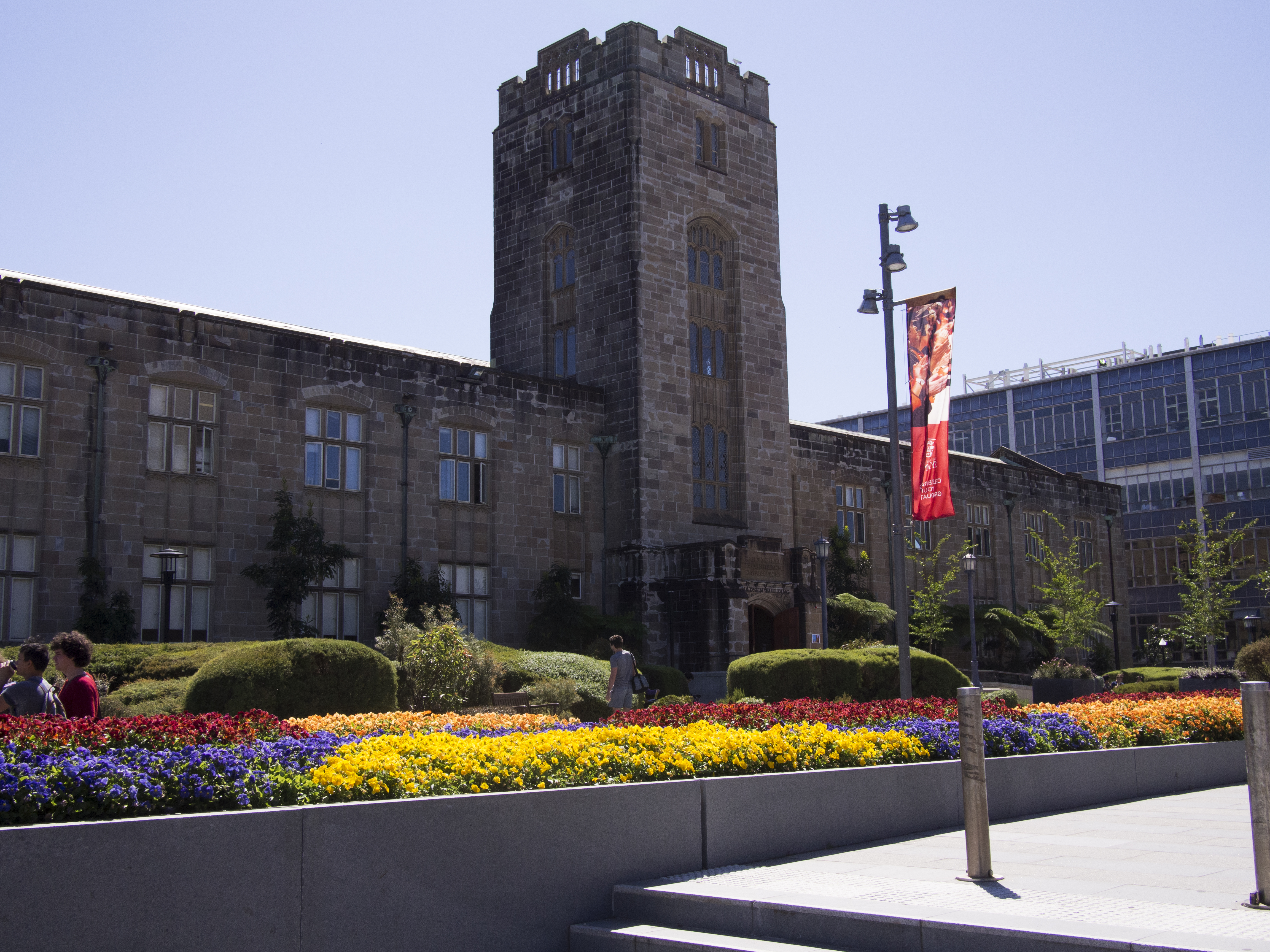 The Madsen Building, University of Sydney